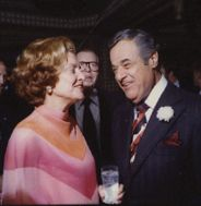 Taken from 32A. First Lady's Trip to Los Angeles-PFC Celebrity Reception; Hollywood. Betty Ford, Mike Frankovich, Milton Berle at Bistro Restaurant, Beverly Hills, CA, 1976-05-06